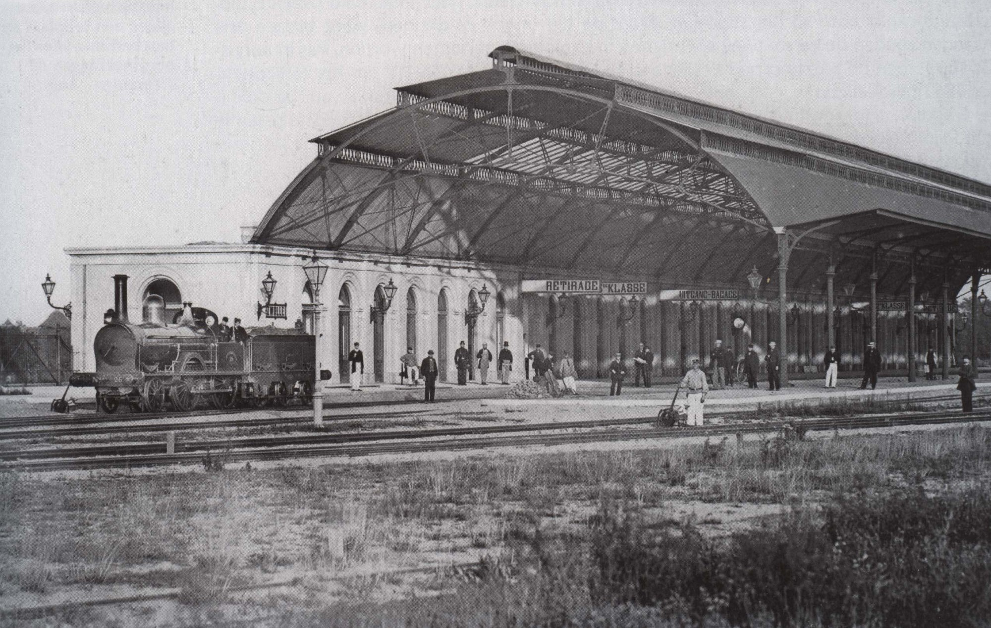 Picture of the trainstation of Zwolle 1868